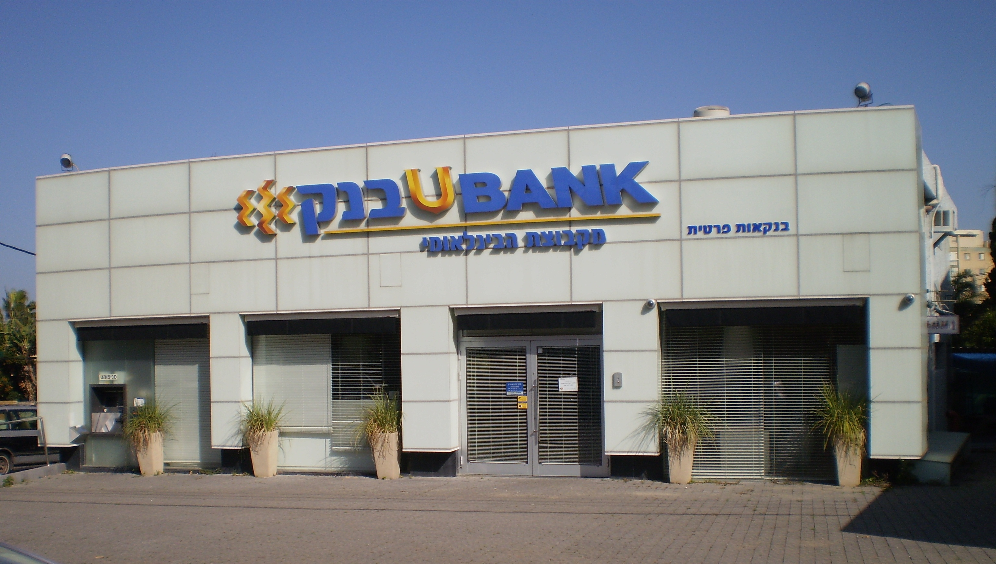 U-bank branch, Ramat Hasharon